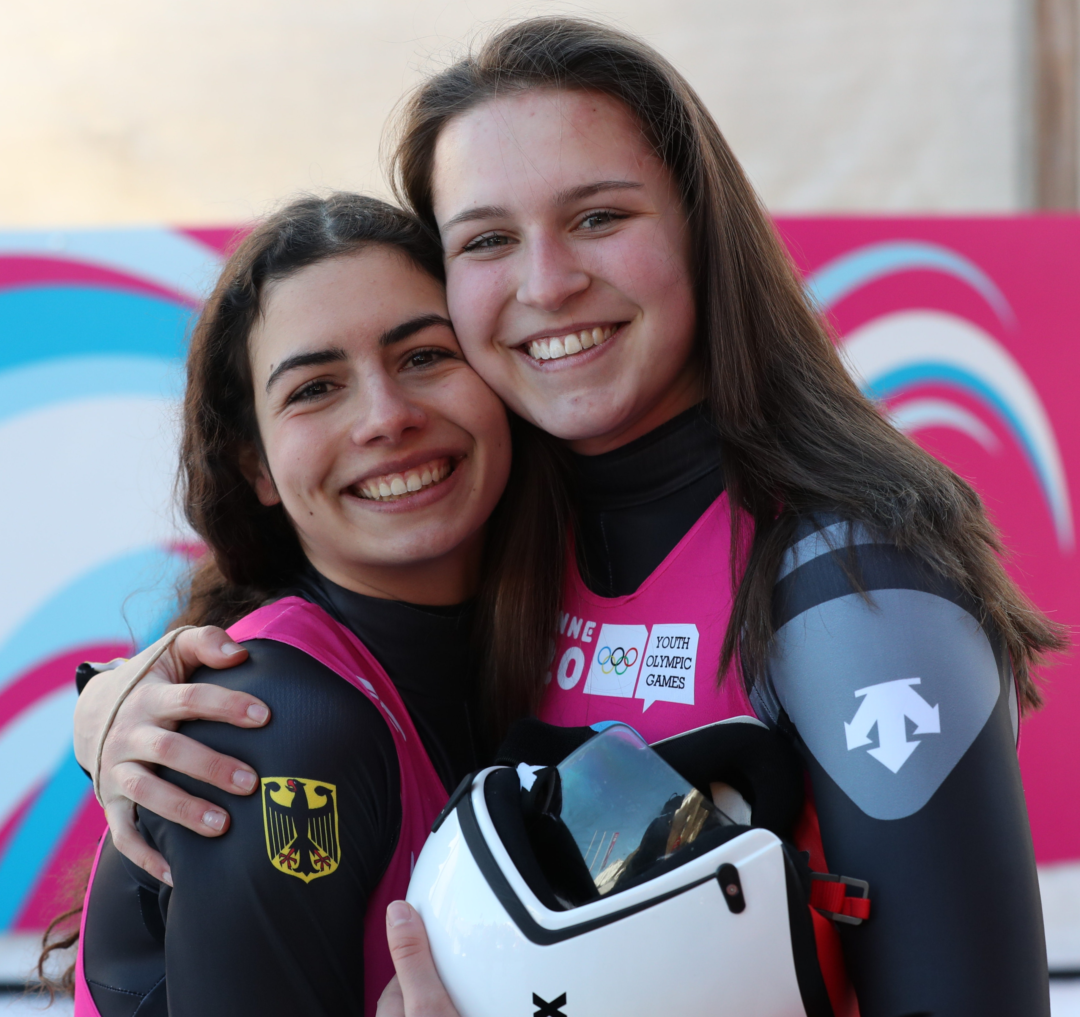 2nd run Luge Women's Single at the 2020 Winter Youth Olympics in Lausanne